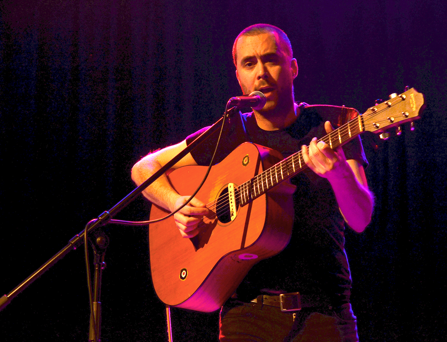 A singer/songwriter based in North London. He is pictured here performing at The Citadel Arts Centre, St Helens, Merseyside on 18 April 2015. He supported Black on their Spring Tour 2015.